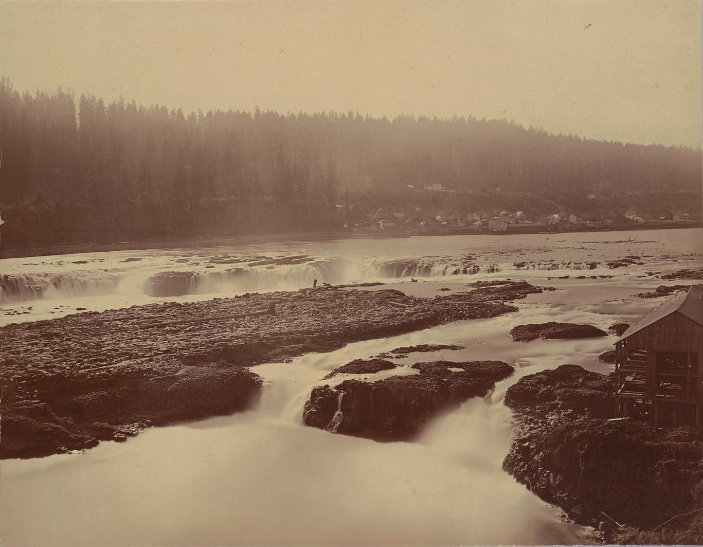 Willamette Falls, 1867, by Carleton E. Watkins (plate number 412).